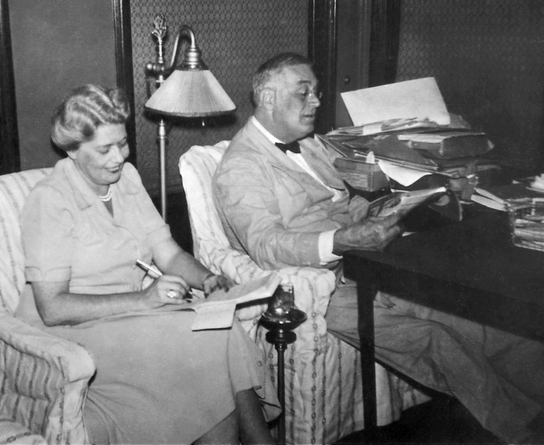 Photograph of Grace Tully with Franklin D. Roosevelt on an inspection train FDR left Washington, D.C., on September 17, 1942, on a secret two-week inspection tour. He got a firsthand look at military production and public morale, traveling more than 8,500 miles by train and motorcade through 24 states. More information